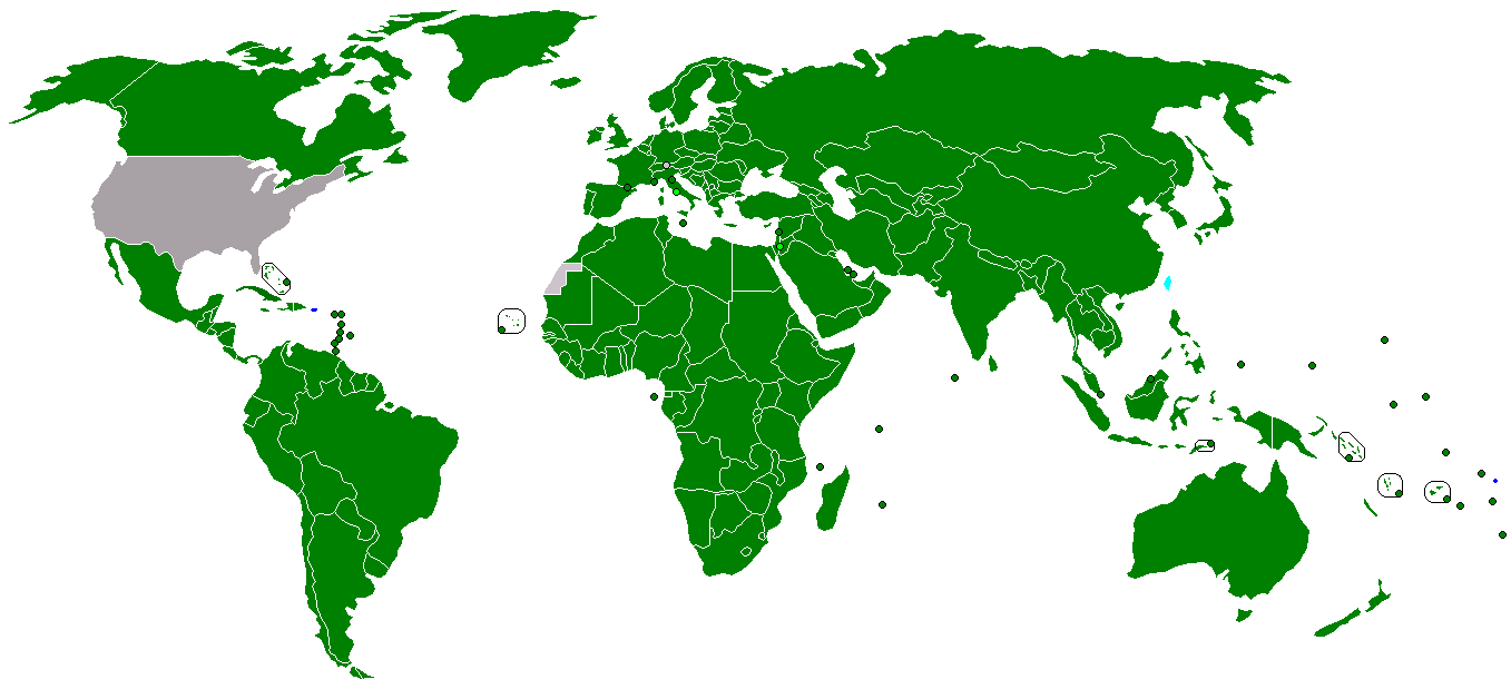 A global map of countries by World Health Organization membership status. WHO members - dark green; observers - light green; invited delegations - blue.